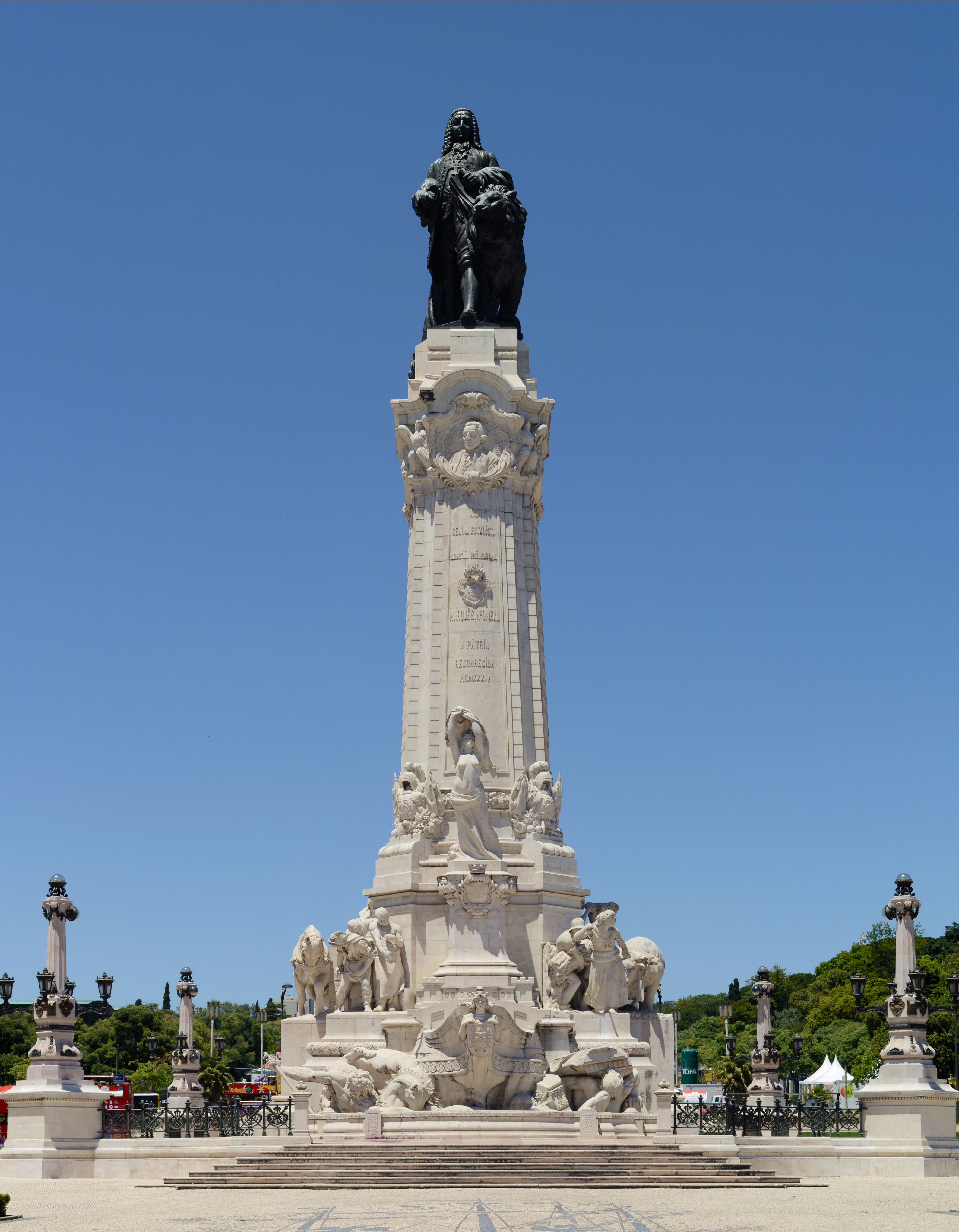 Monument to the Marquess of Pombal, Lisboa, Portugal